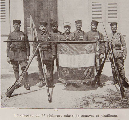 Fourragere 4 mixte et zouaves et tirailleurs 1914-1918